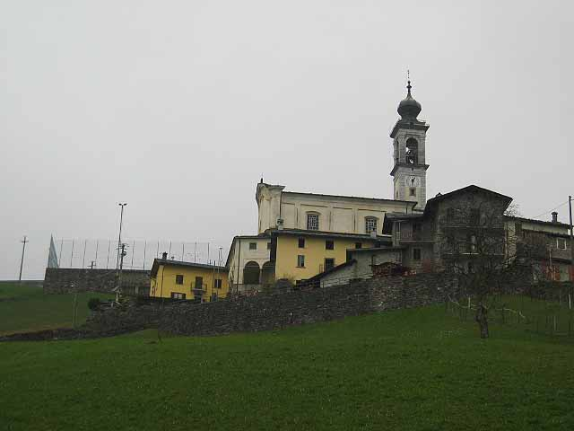 Gromo (BG), Lombardy, Italy - Boario